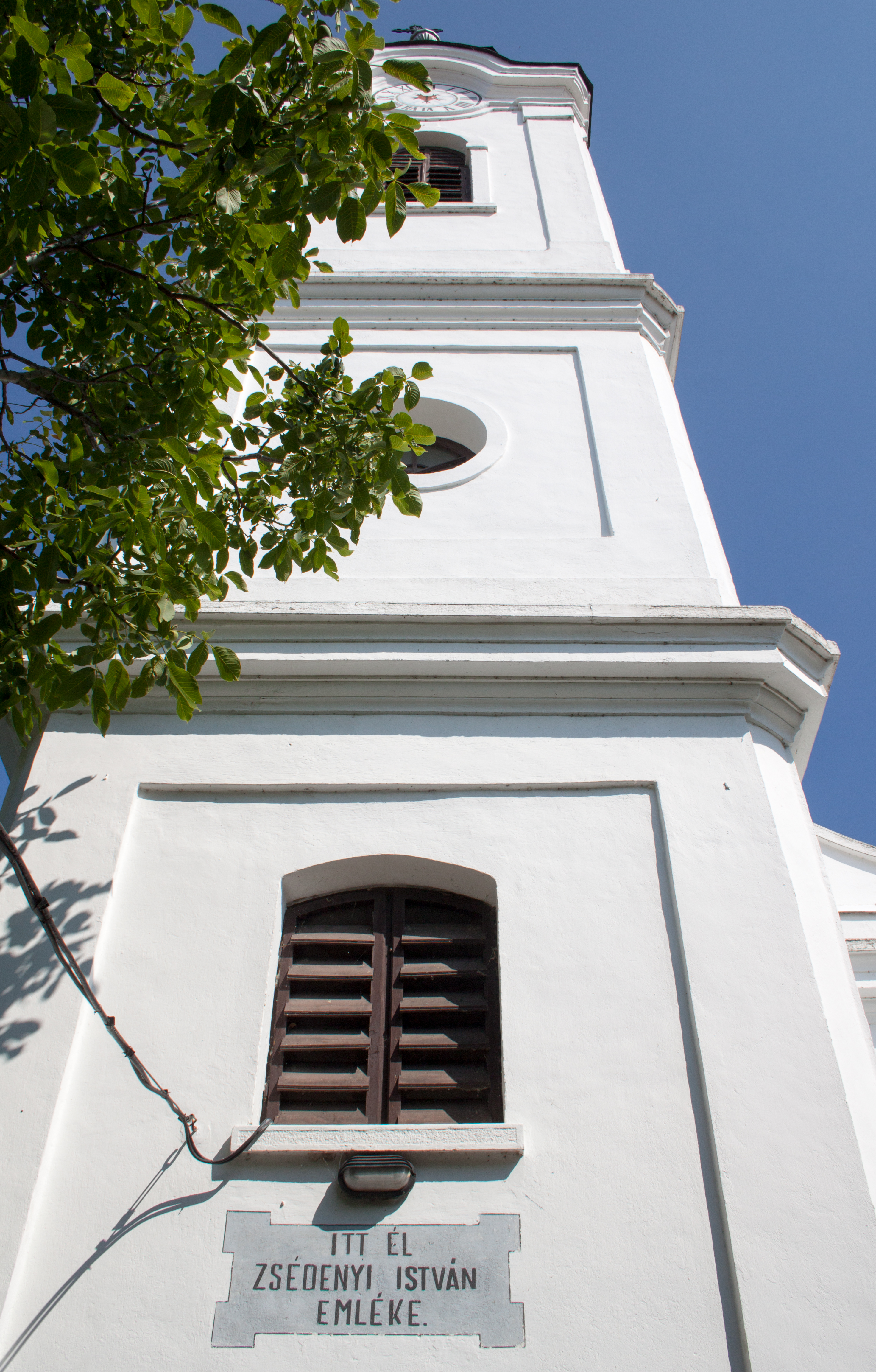 Evangelic church